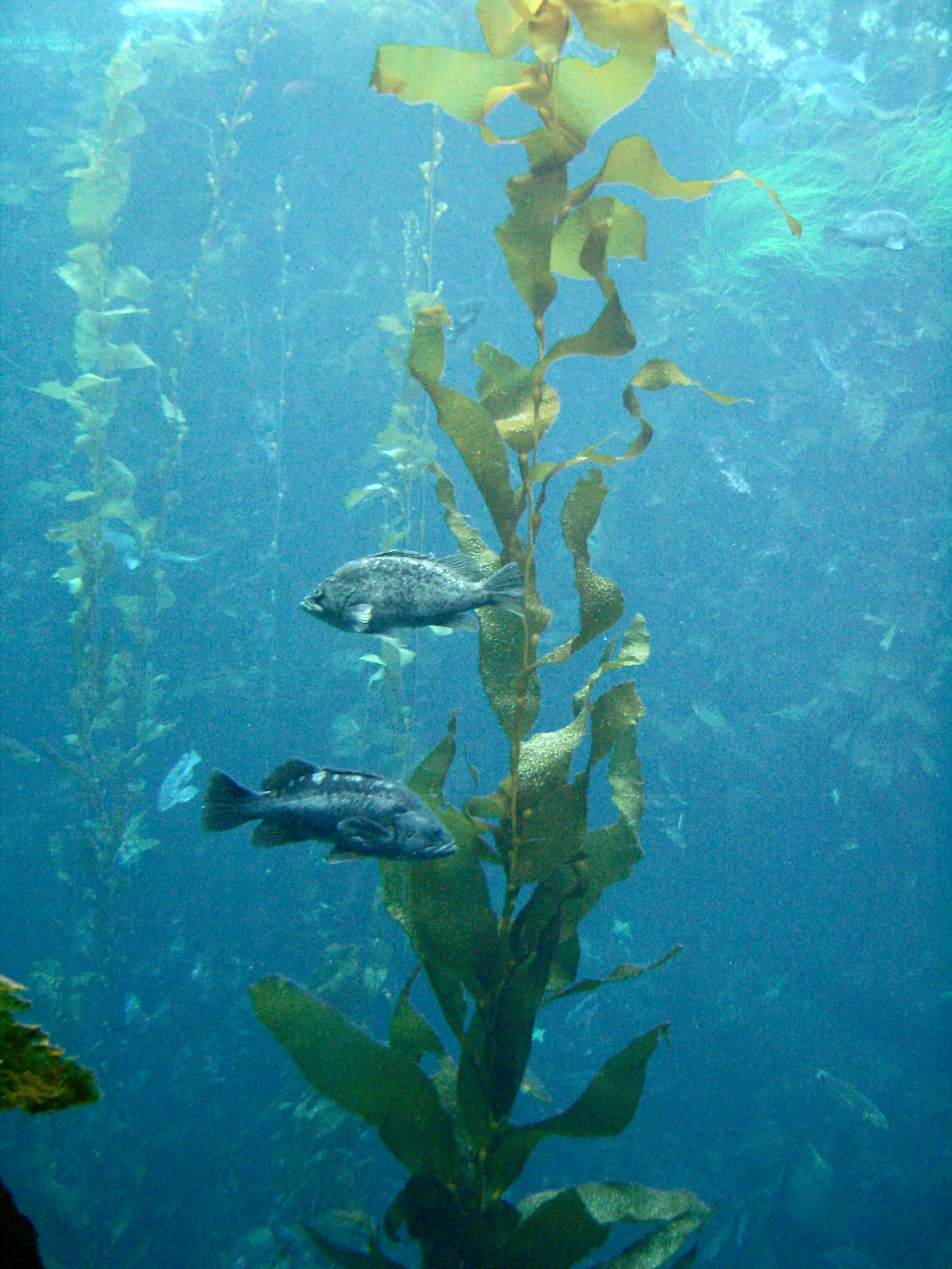 Rockfish (Sebastidae) swimming around kelp at Monterey Bay Aquarium, California.